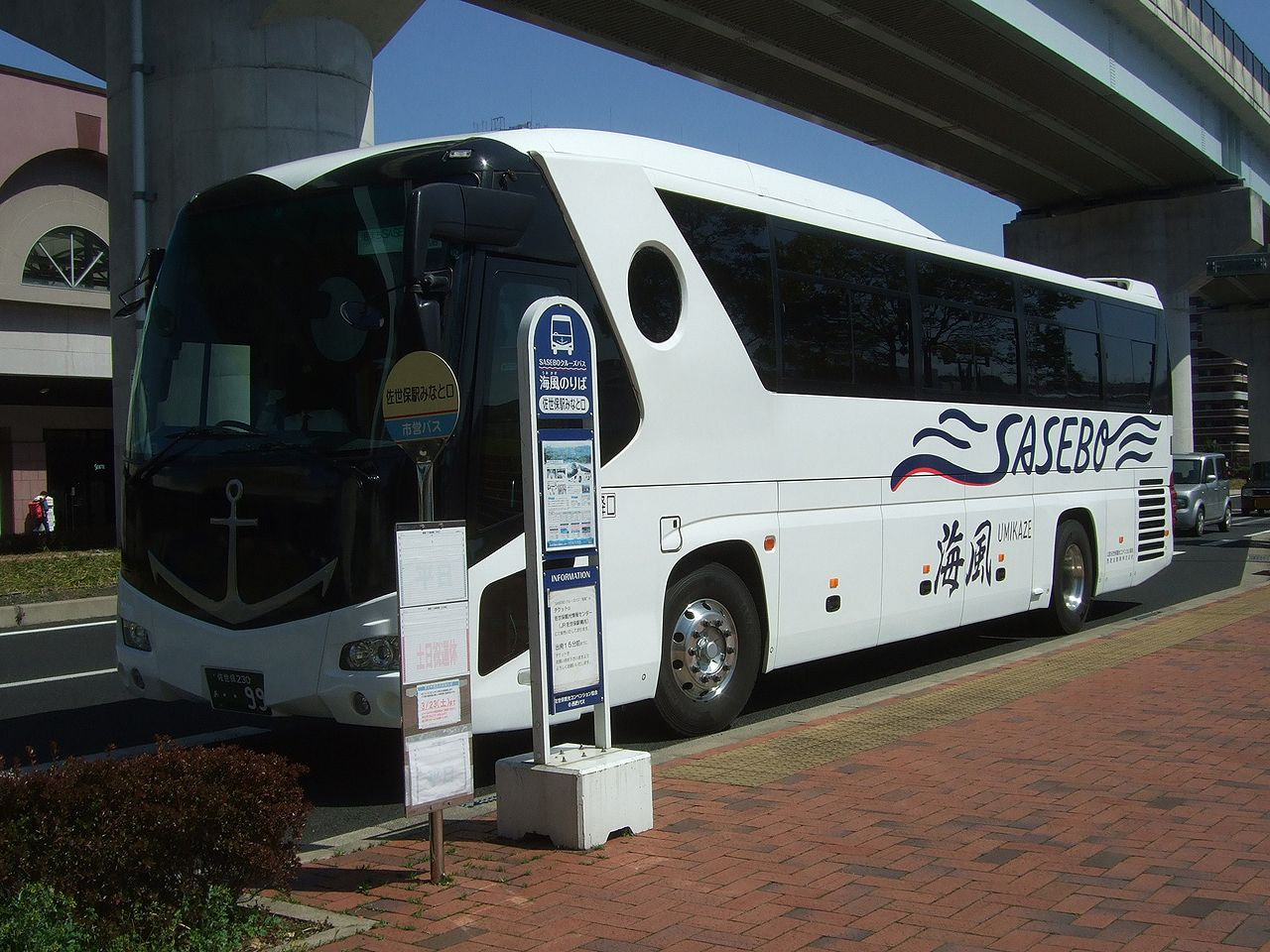 Company:Saihi Bus Use:transit bus Car license:NSS 230 A 99 Code:H263 Chassis manufacturer:Hino Motors Type:Selega Coachbuilder:J-BUS Location:Sasebo Station Minato Entrance, Sasebo City, Nagasaki, Japan.